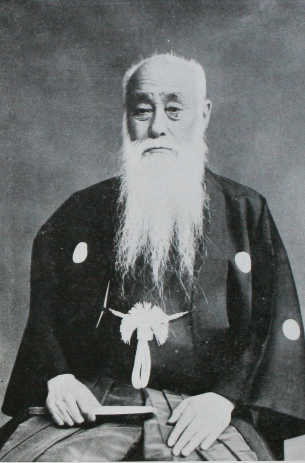 portrait of KUSAKABE MEIKAKU (1838-1922) calligrapher